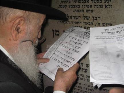 Rabbi Meir Tzvi Bergman\'s grave praying tent in Bnei Brak, Rabbi Shach, the people of Israel